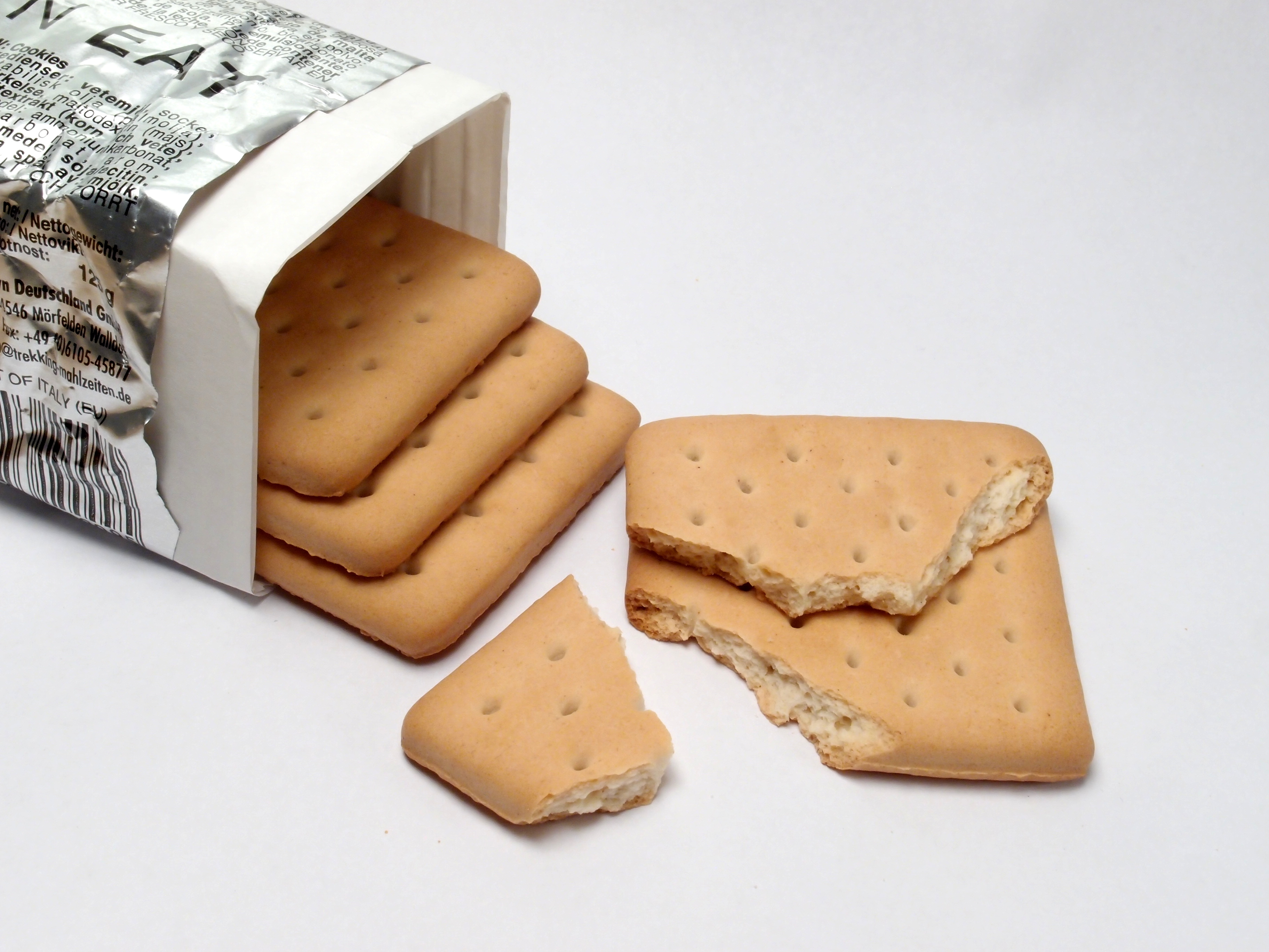 A package of hardtack biscuits. This is Italian-made hardtack, sold on the German market as a trekking supply under the “Trek'n Eat” brand.